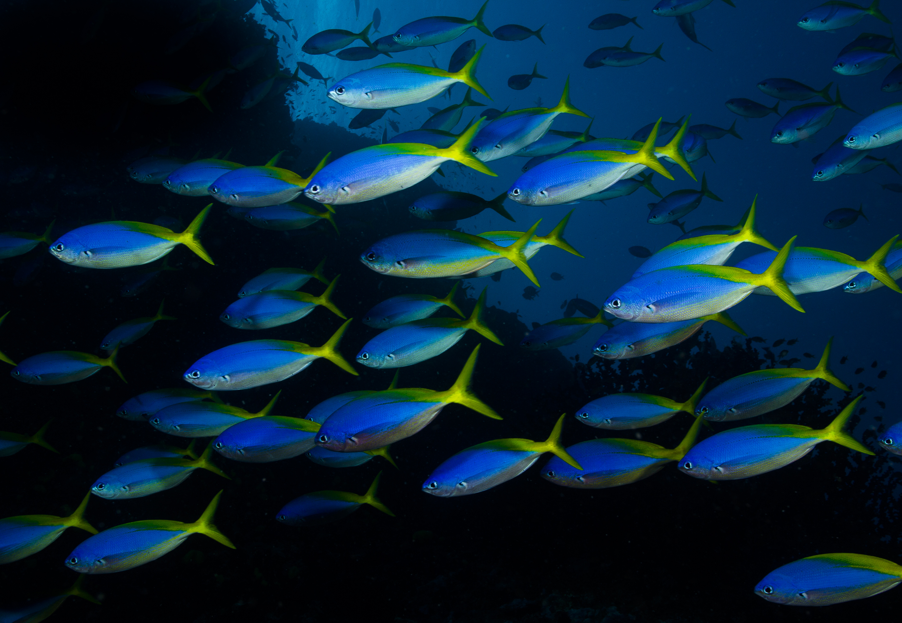 Caesio teres in Fiji